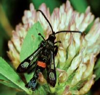 Red-belted clearwing